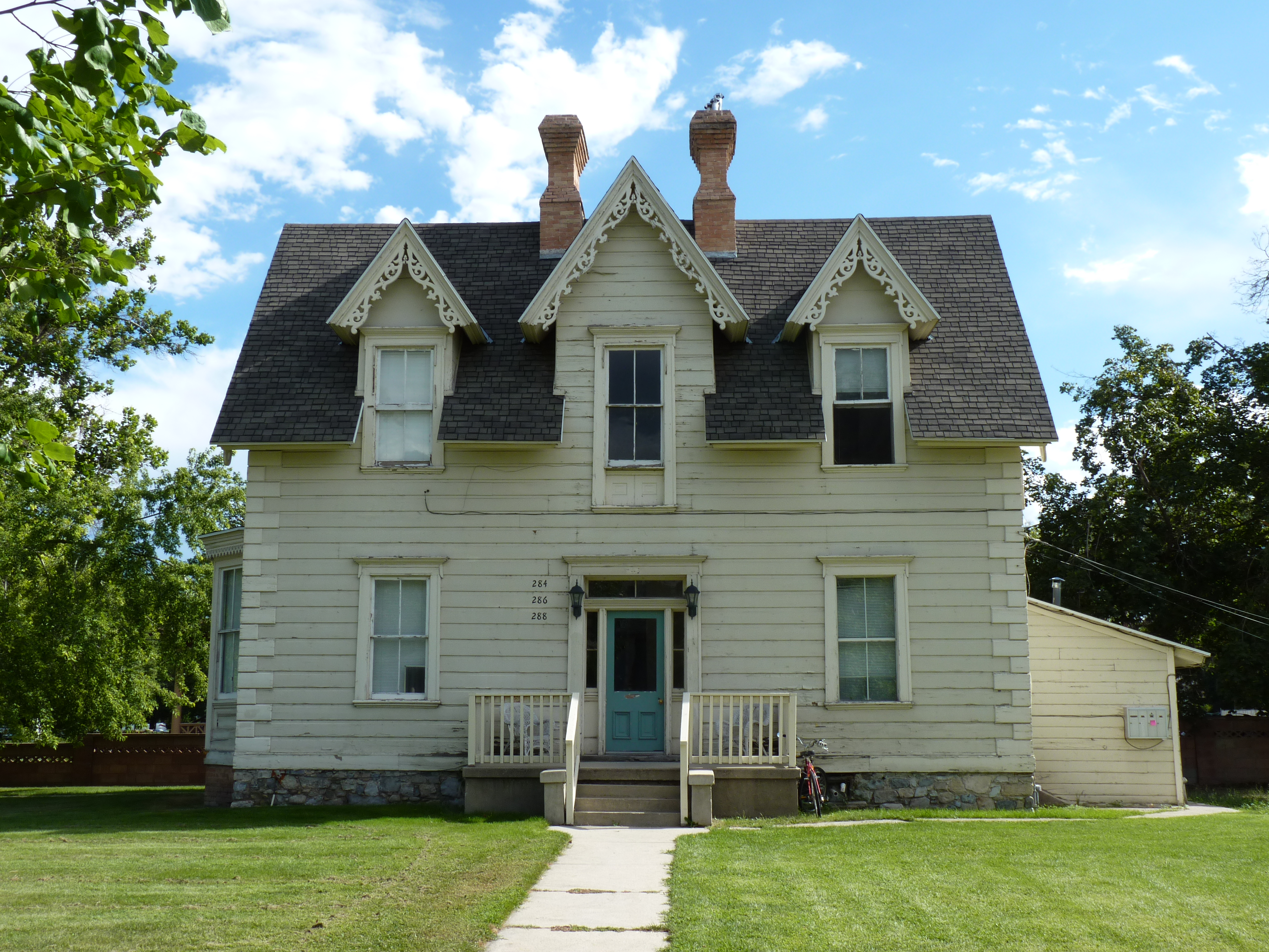 The George M. Brown House is located at 284 East 100 North in Provo, Utah. It is listed both on the city's historic landmark registry and on the NRHP.